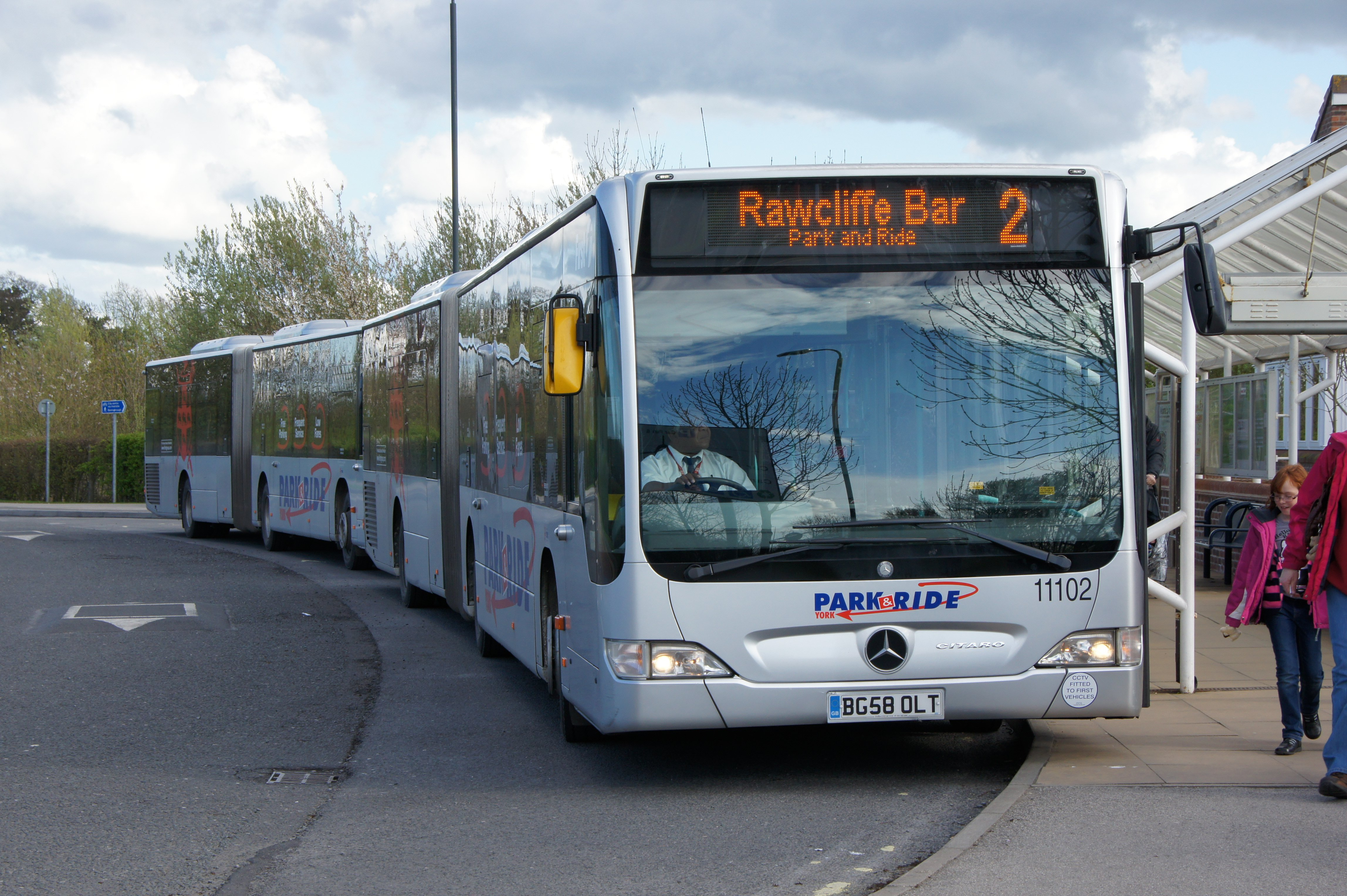 BG58OLT-2 100412 CPS